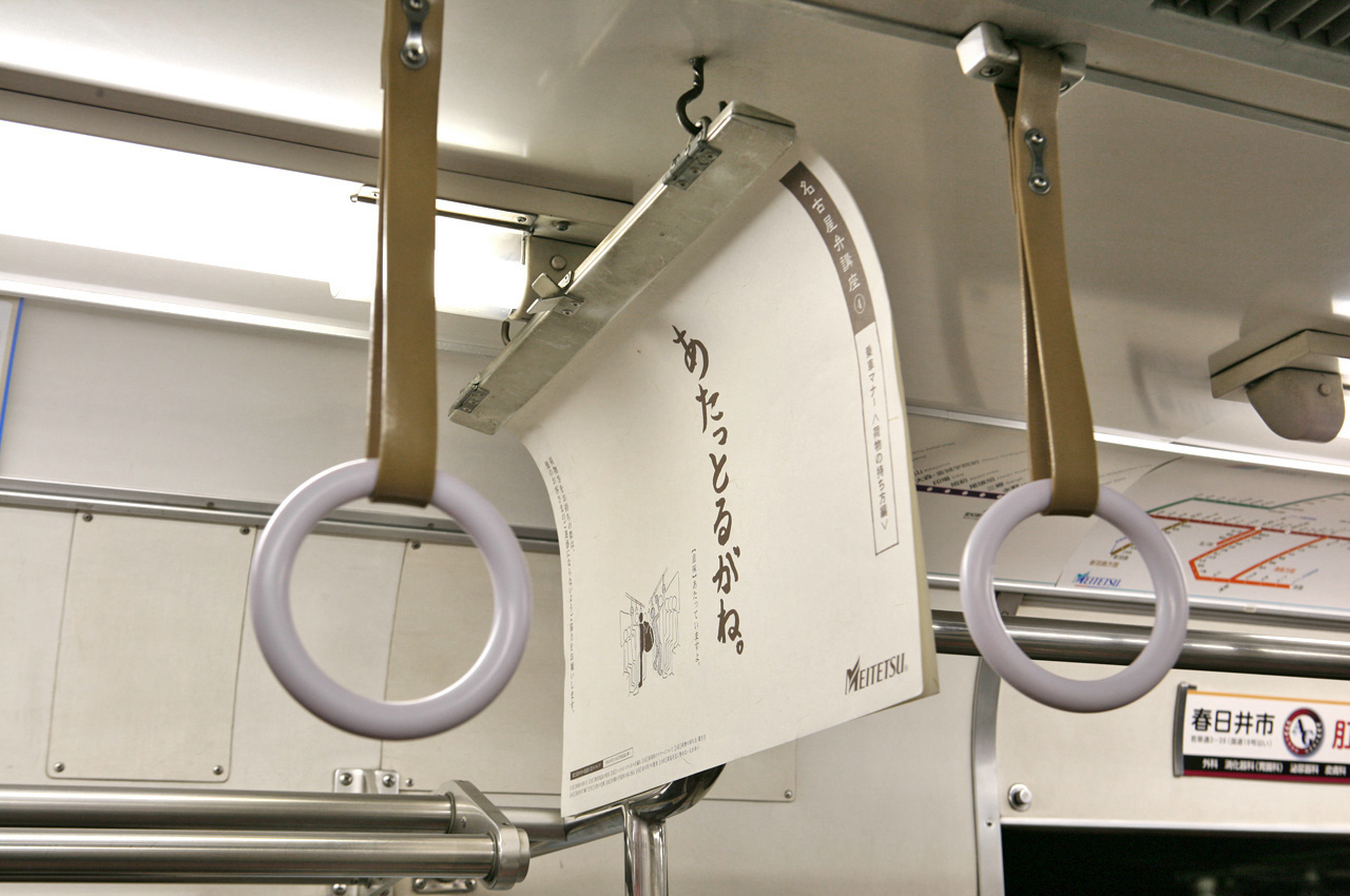 Interior of Meitetsu 6000 series EMU ( Sa 6127 )